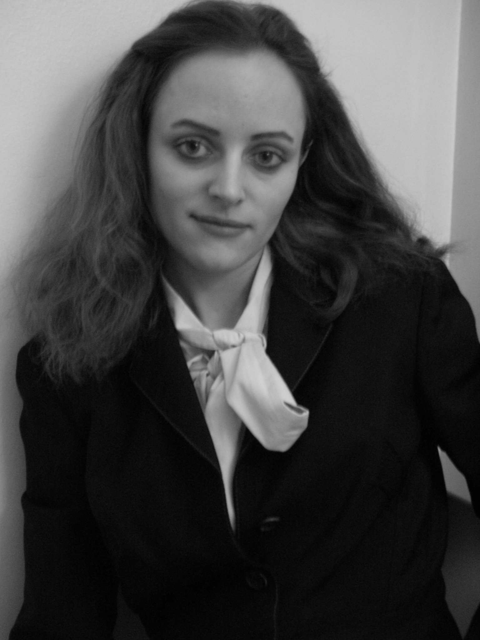 Italian writer Bettina Galvagni